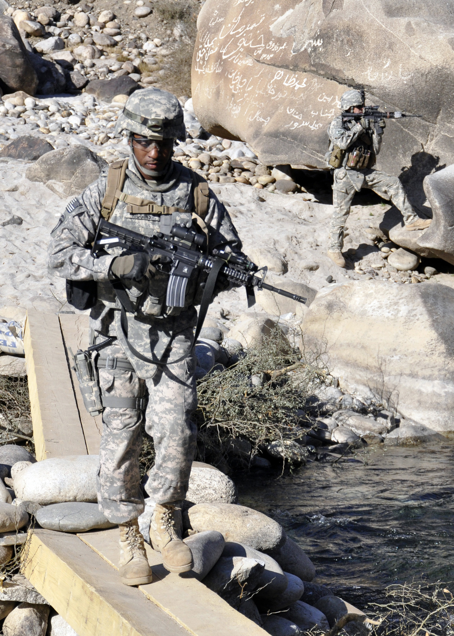 U.S. Navy Petty Officer 1st Class Brylan Riggins (left), with the Nuristan Provincial Reconstruction Team, crosses a temporary bridge on the Alingar River as U.S. Army 1st Lt. Michael Lutkevich, Nuristan Provincial Reconstruction Team security force platoon leader, stands guard in Nuristan province, Afghanistan, on Jan. 23, 2011. The Provincial Reconstruction Team and the United States Agency for International Development checked on the status of a watershed project designed to mitigate the effects of unchecked soil erosion.